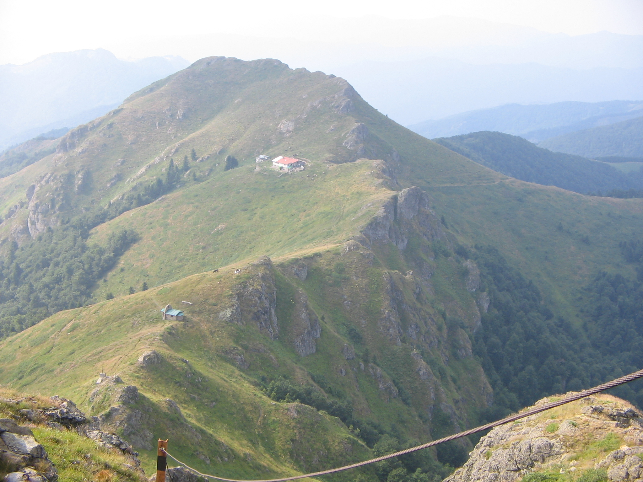 Touristic hut "Echo" as seen from the height of the mountain track to peak Yumruka. Stara planina, Bulgaria